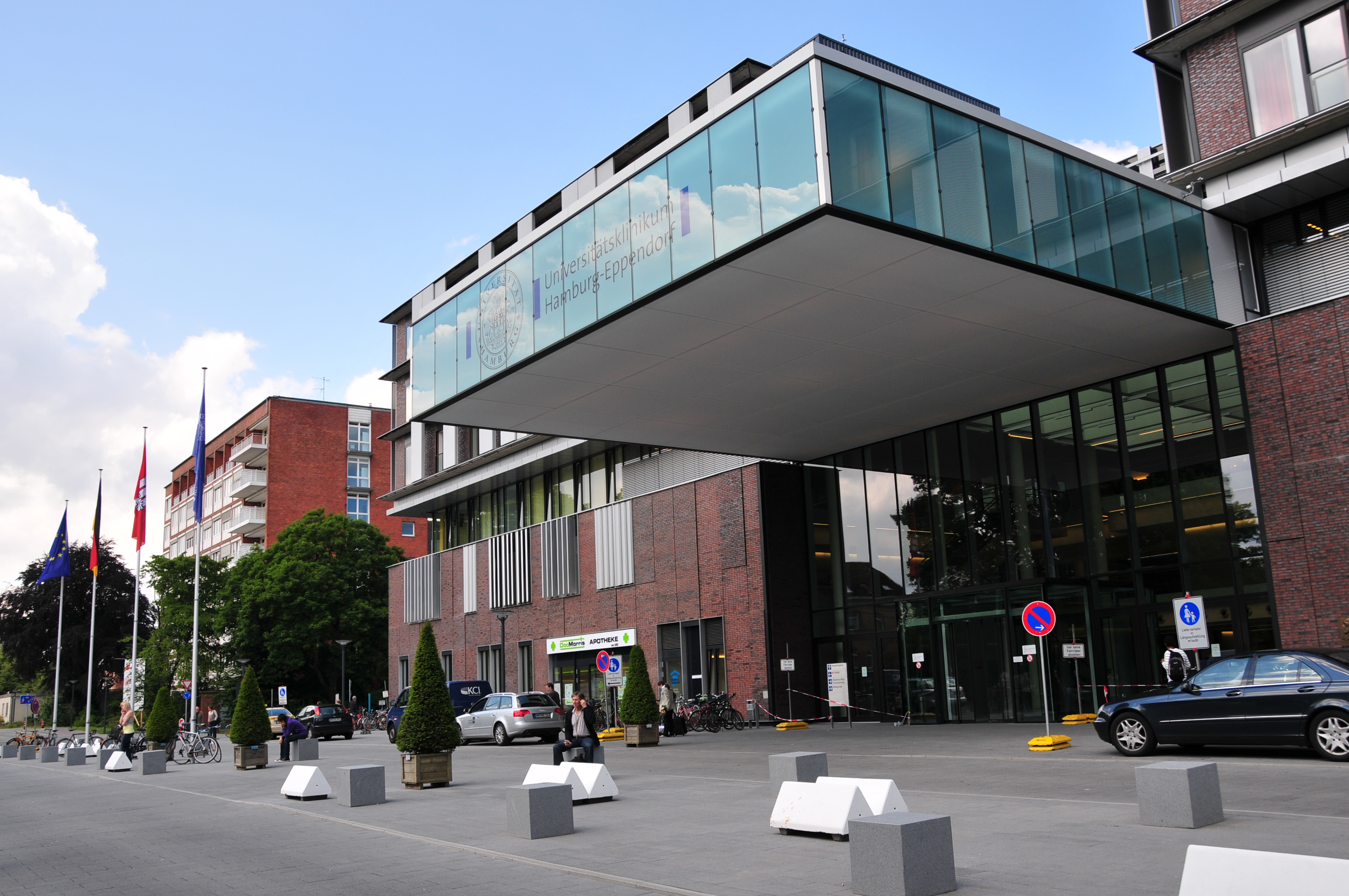 New building, University Medical Center Hamburg-Eppendorf, photo author: Dr. Alla Adams, June 2009.